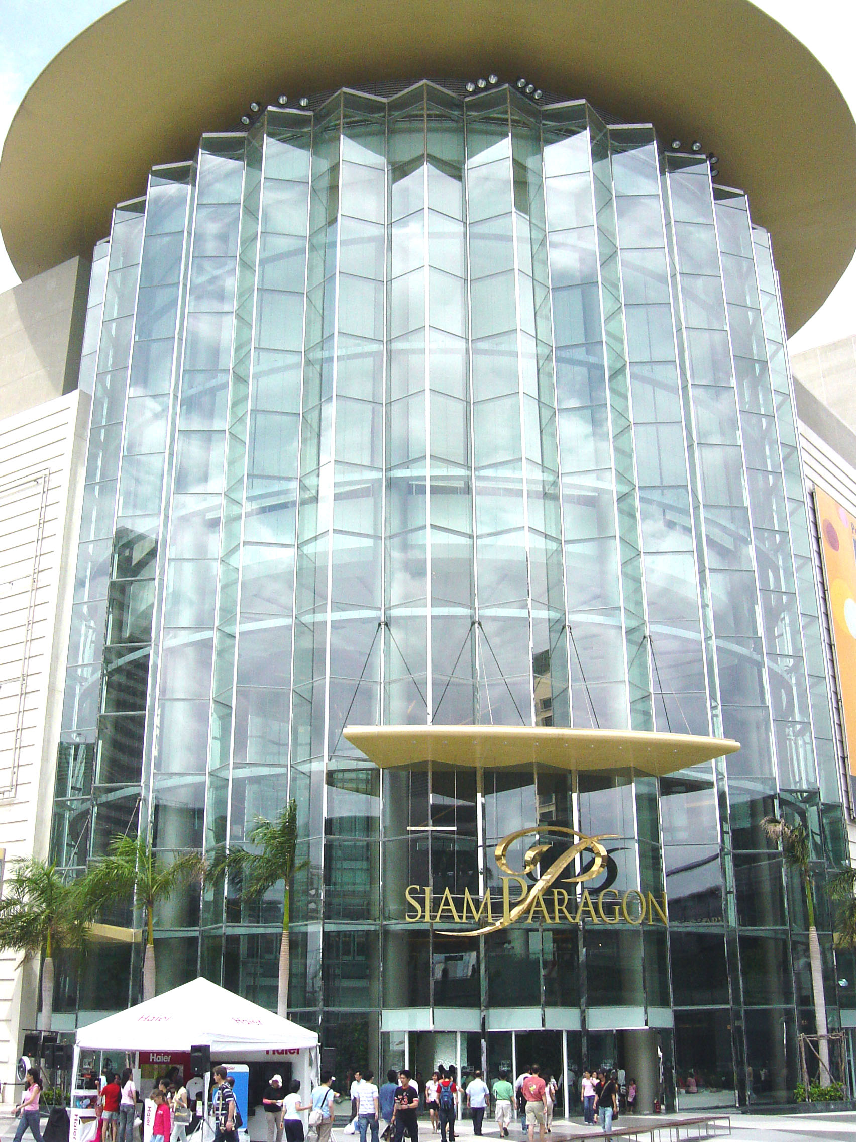 Outside view 1 of the Siam Paragon Shopping Centers in Bangkok, Thailand - Außenansicht 1 des Siam Paragon Einkaufszentrums in Bangkok, Thailand